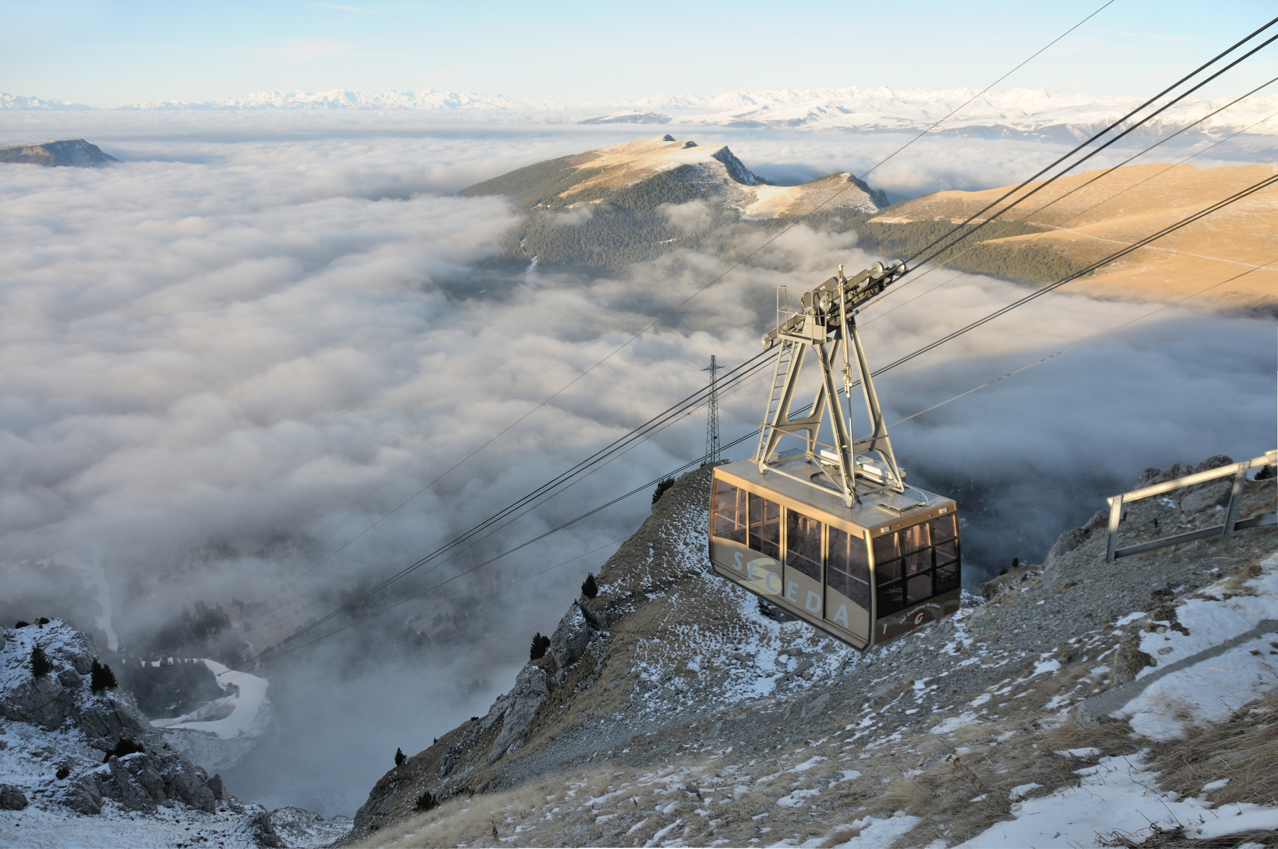 Cable car on the Mount Seceda in the Dolomites - Elevation 2453 m